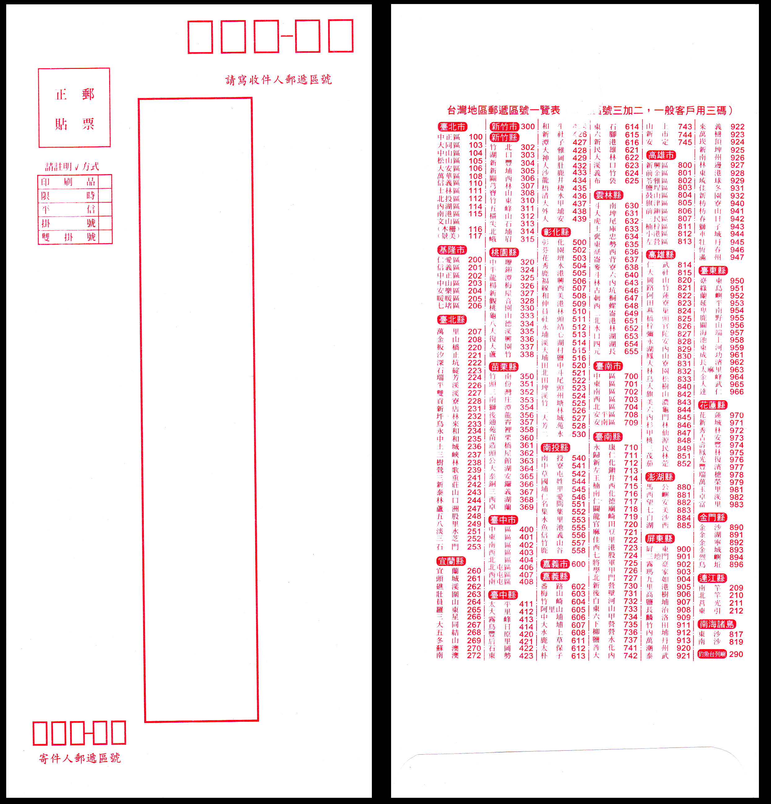 A Taiwan envelope